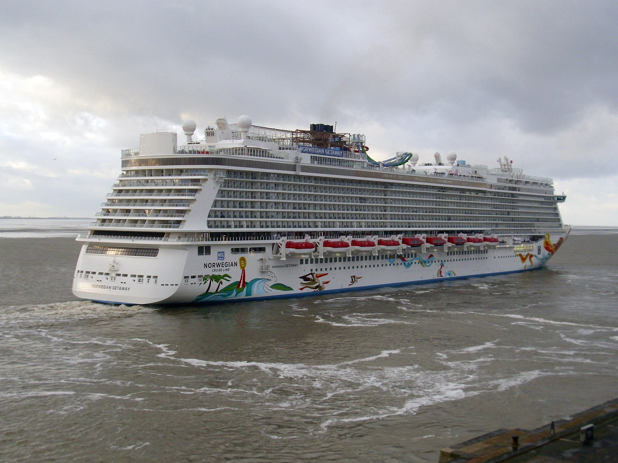 The cruise ship Norwegian Getaway is leaving Bremerhaven in Germany after final works